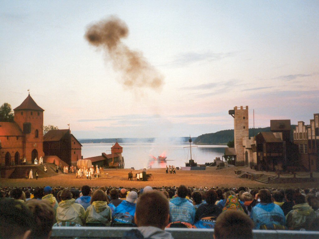 Störtebeker Festival in Ralswiek on island Rügen